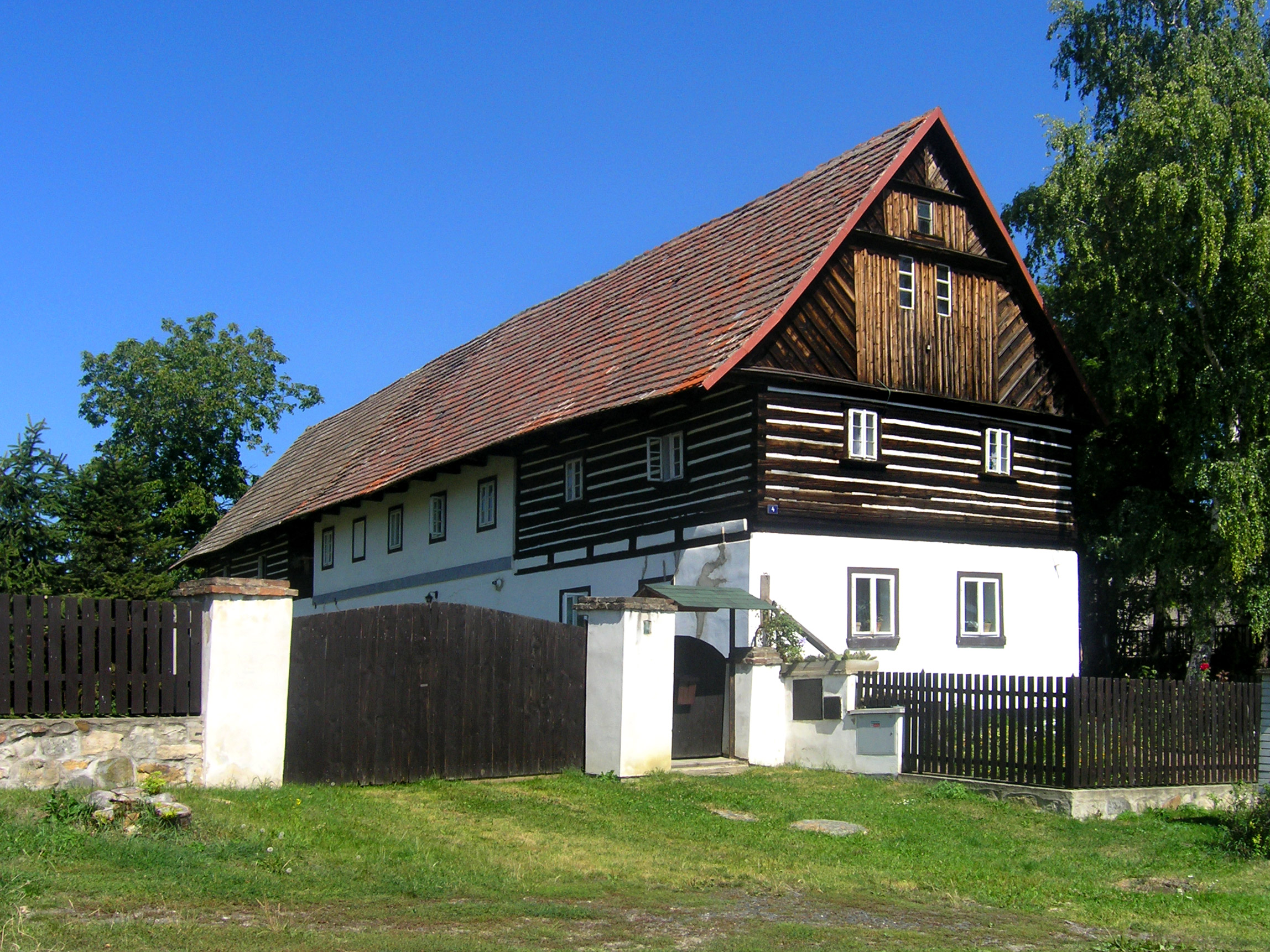 West part of Maškovice, part of Ploskovice village, Czech Republic